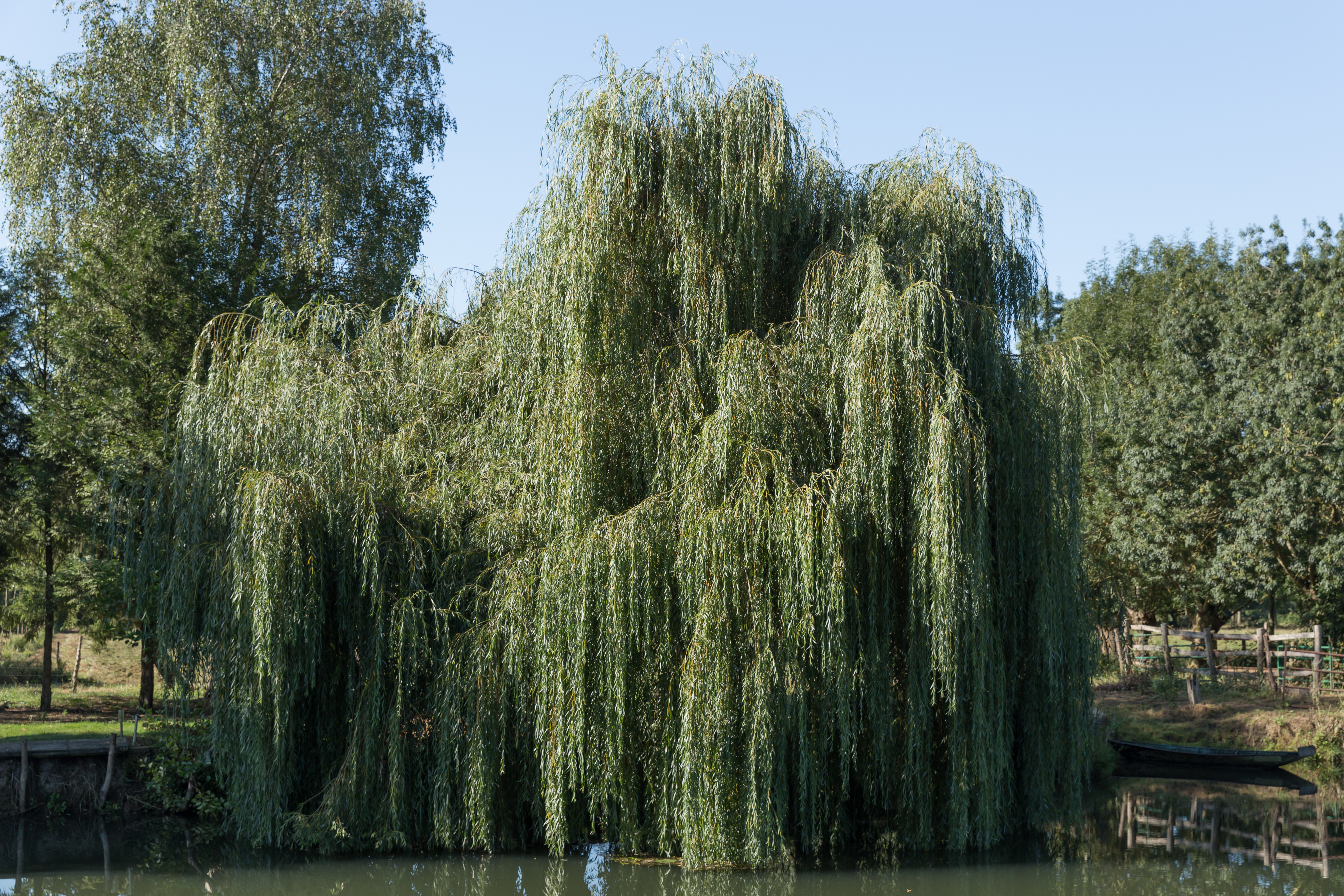 Salix babylonica (Babylon willow) in Coulon in the MArais Poitevin, France.